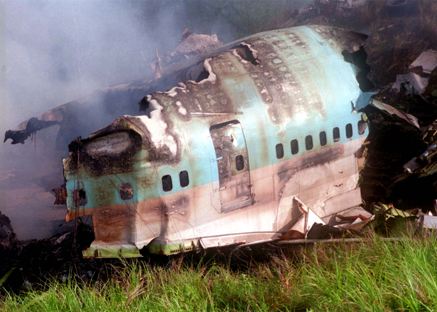 Wreckage of the Korean Airlines flight 801 burns at the Sasa Valley crash site on Aug 6, 1997.